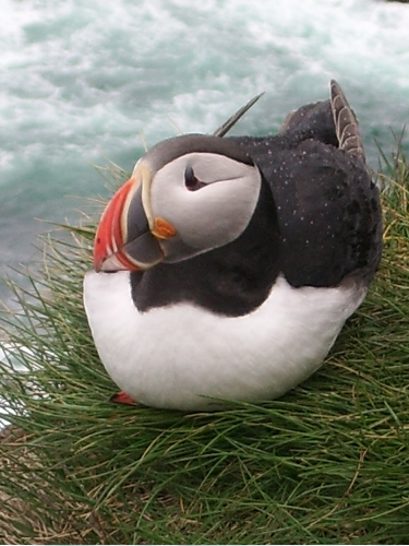 Puffin Fratercula arctica in Látrabjarg Iceland